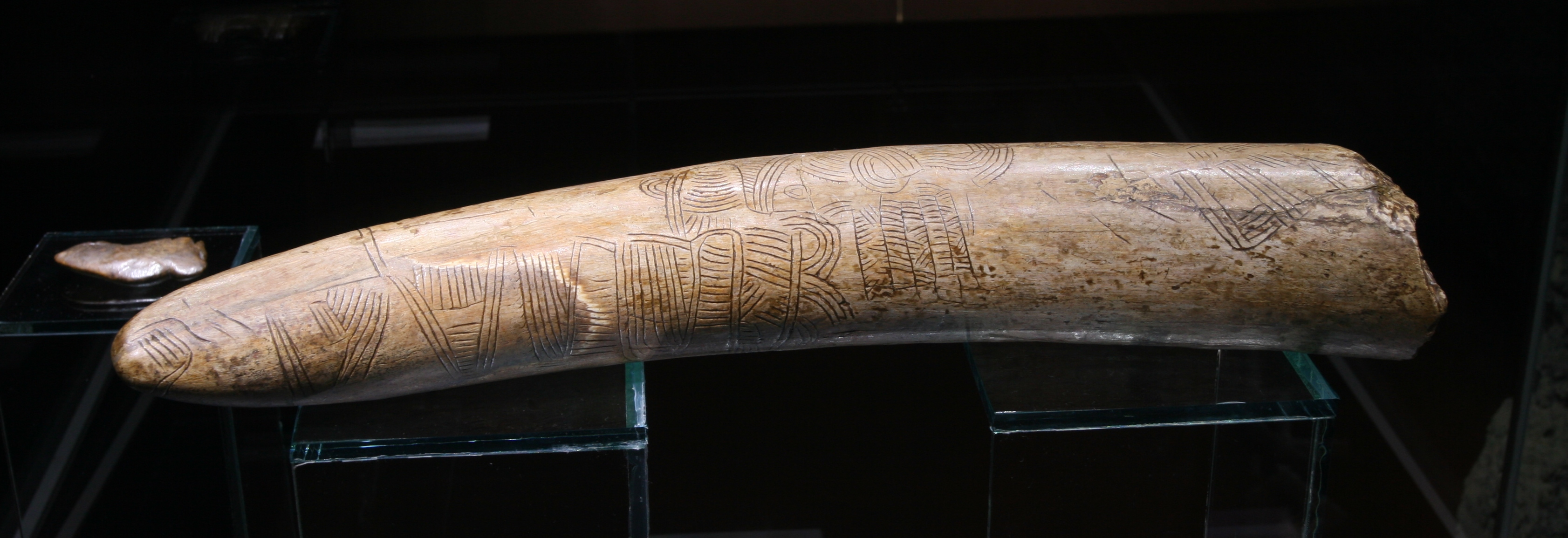 Mammoth tusk with engraving (map) in National Museum in Prague